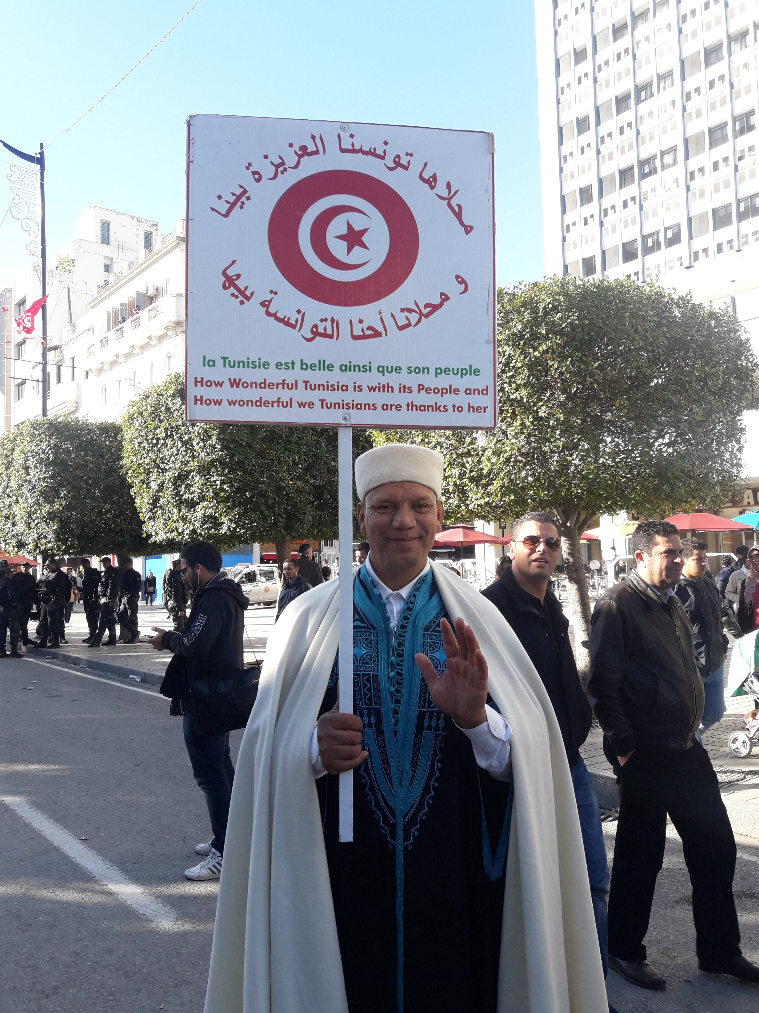 14 January 2018 - Tunisia Revolution celebration : a man standing with a positive sign of support